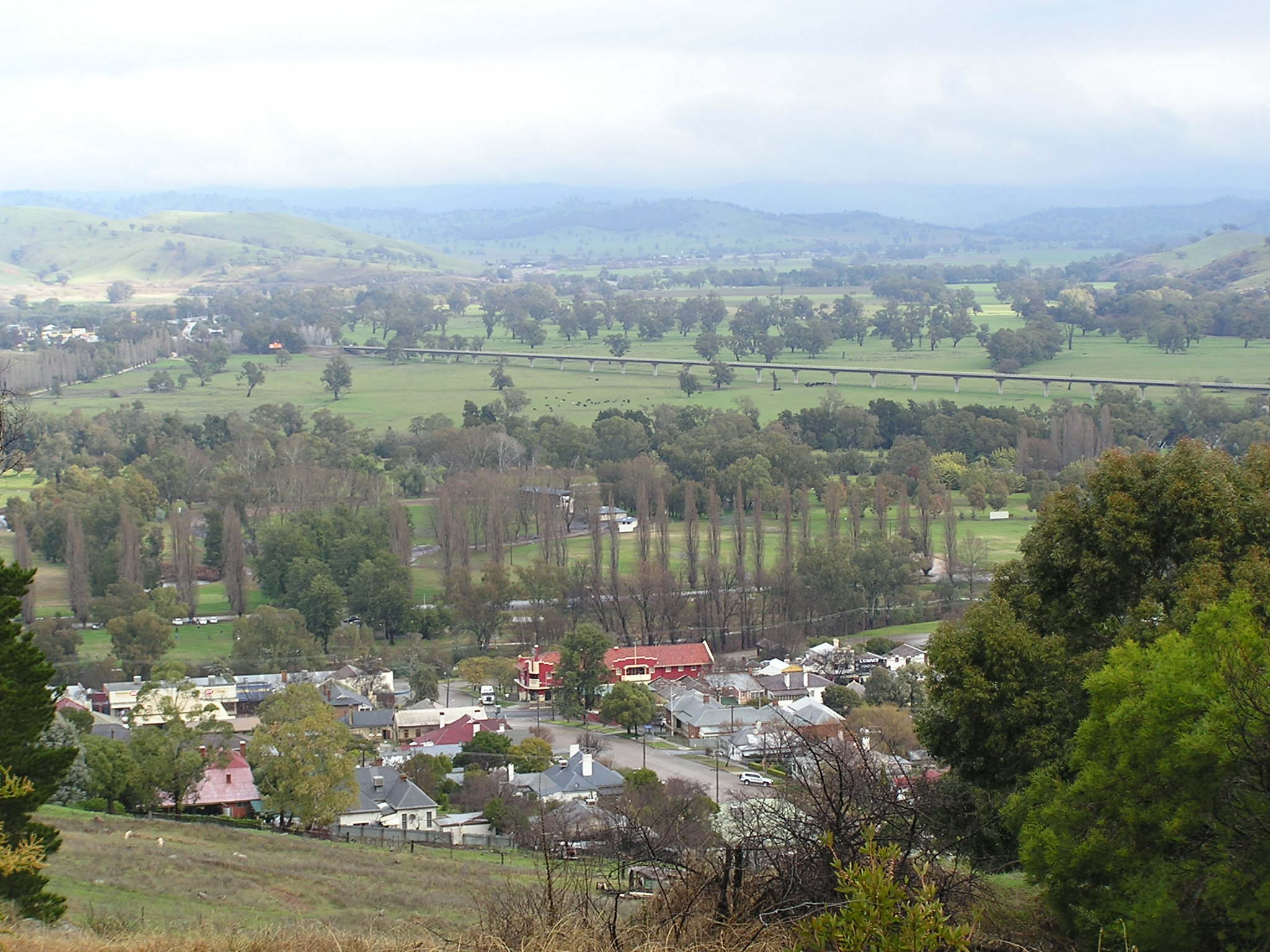 Gundagai, New South Wales, Australia, July 2005 Picture taken by AYArktos